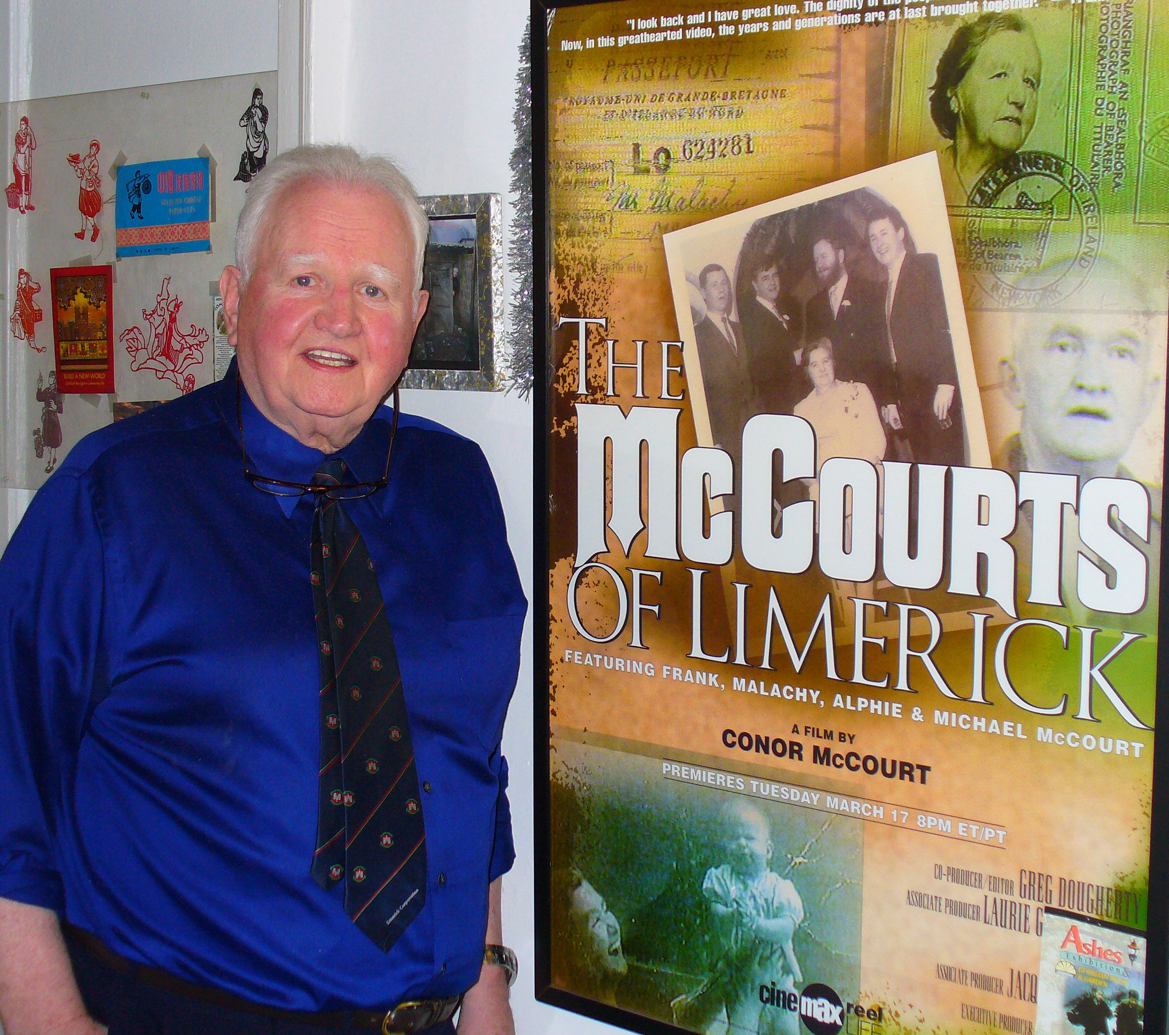 Malachy McCourt of Limerick by David Shankbone